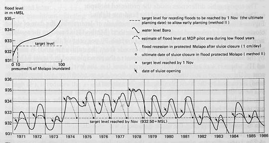 Hydrographs of the flood level of the Boro river, with an indication of the years in which the timely closure of the sluice gates would facilitate flood-recession cropping in the molapo’s in the Okavango delta, Botswana